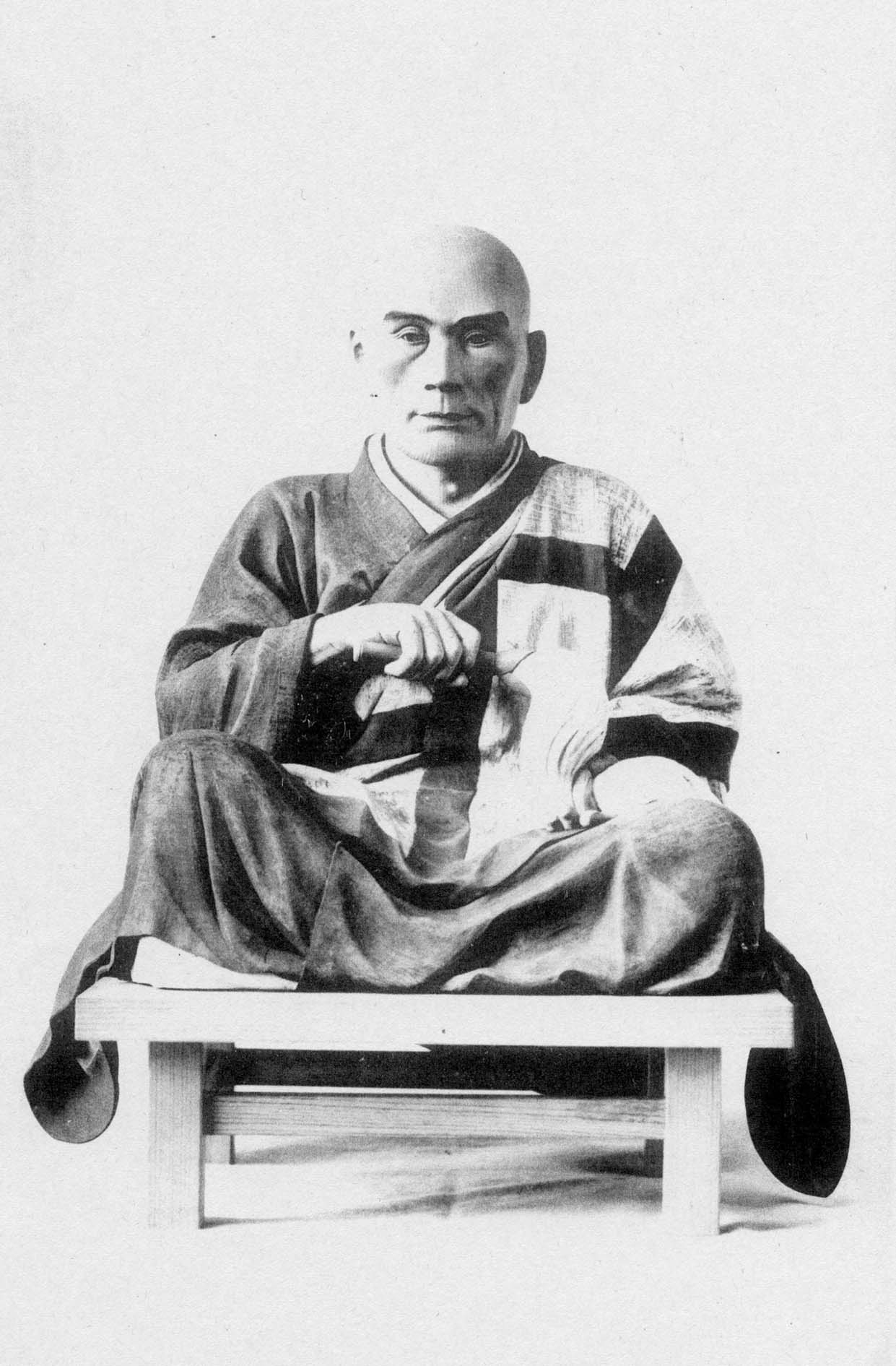 Portrait Statue of Machida Hisanari. Wood, coloured. Sculptured by Takeuchi Kyuichi in Dec. 1912. Entire height 55. cm. Donated by Mr. Yusaku Imaizumi..